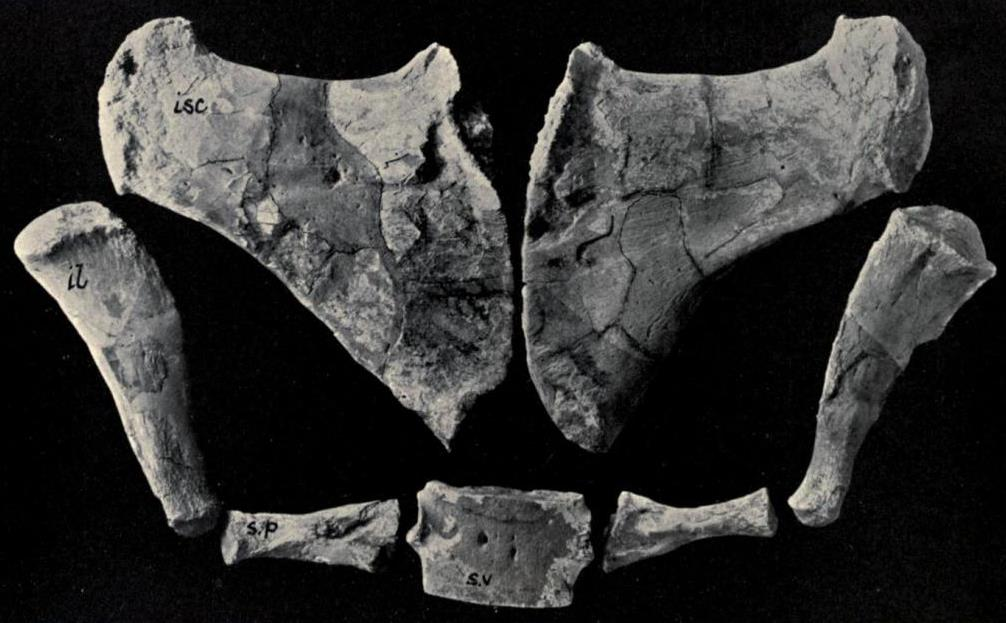 Photograph of the pelvic bones of Polycotylus ischiadicus from "North American Plesiosaurs: Part 1" by Samuel W. Williston and Oliver C. Farrington (Field Colombian Museum Publication (Geology) 73).